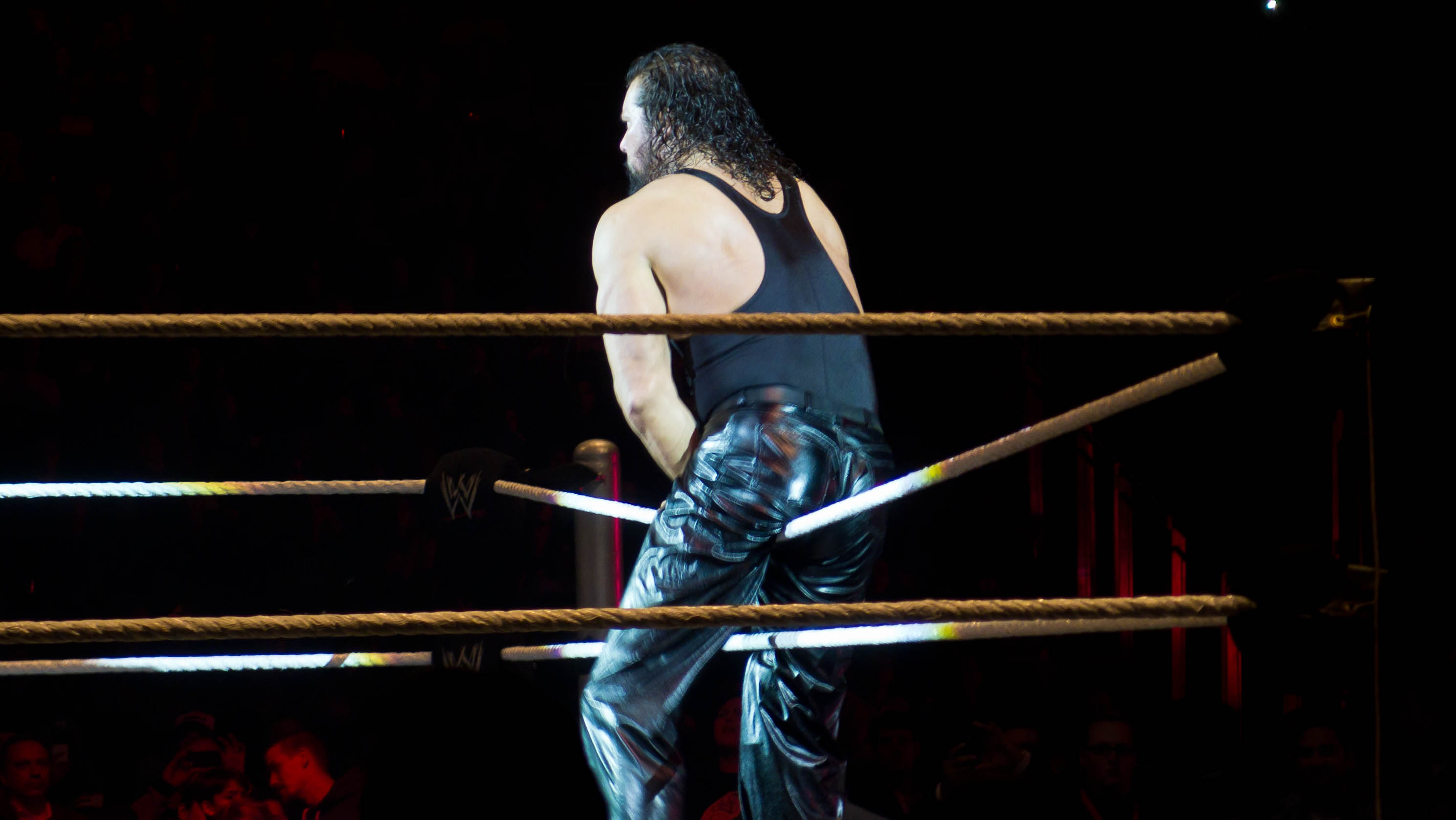 WWE Raw World Tour - London November 2011